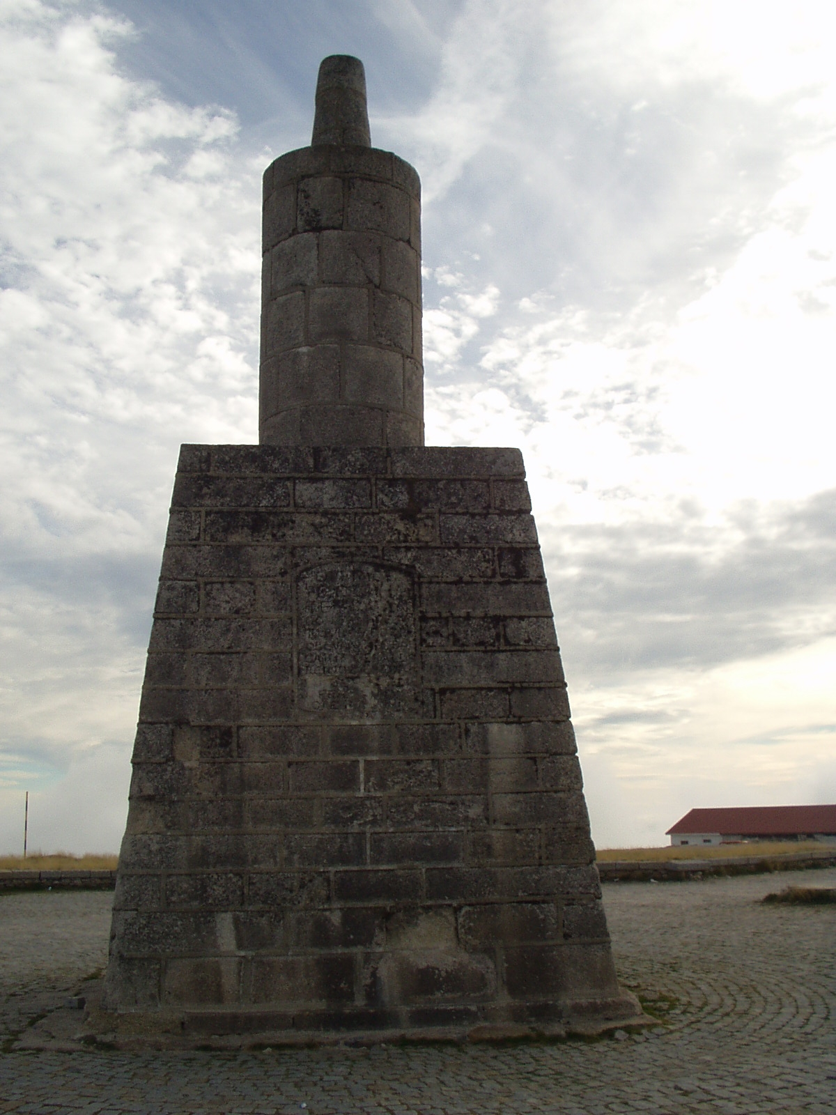 Hightest point in Mainland Portugal: 2000 m on the top of this tower, 1993 m on base (the highest mountain in Portugal is in the Azorean island of Pico, 2351 m)